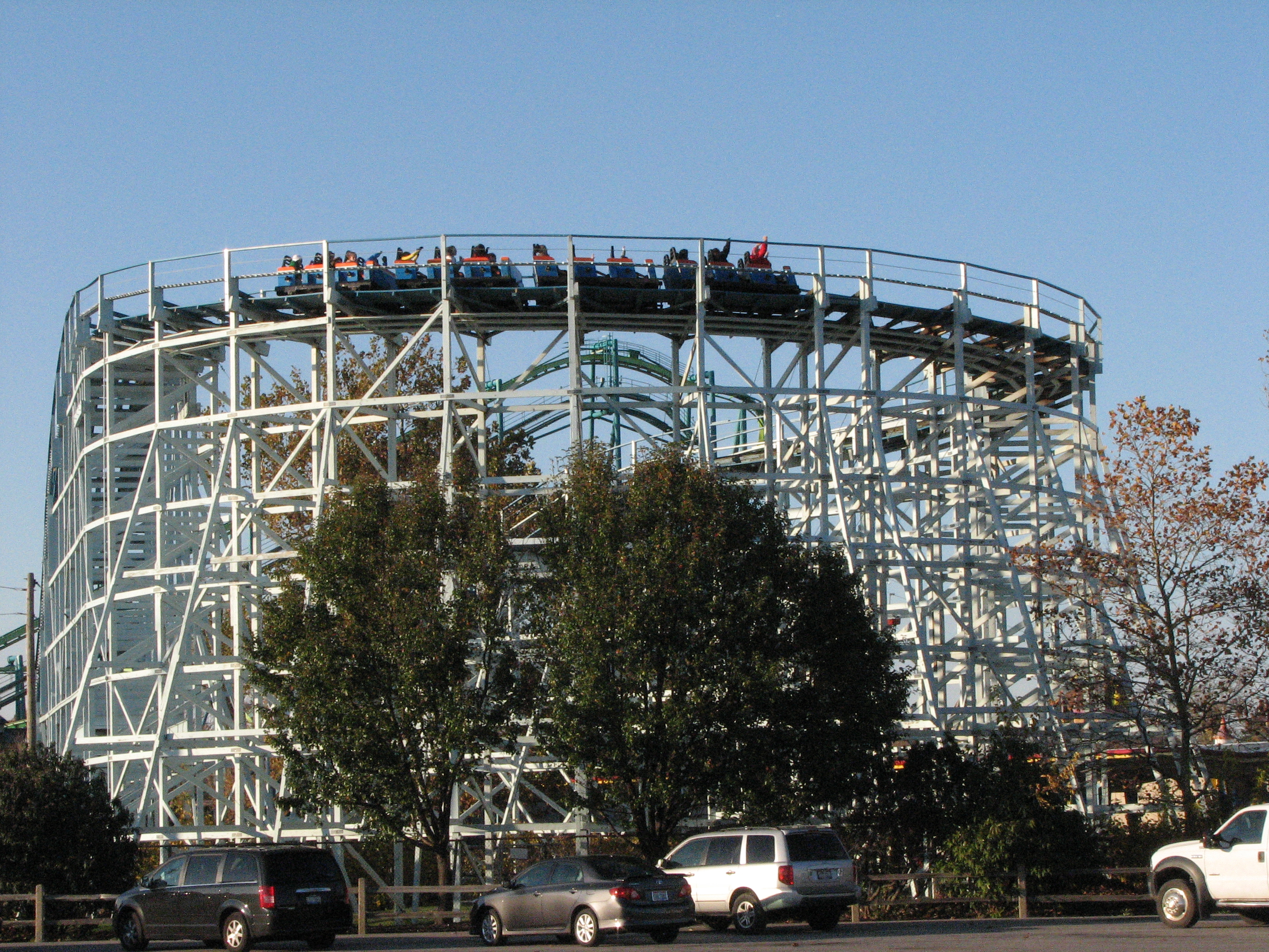 Blue Streak